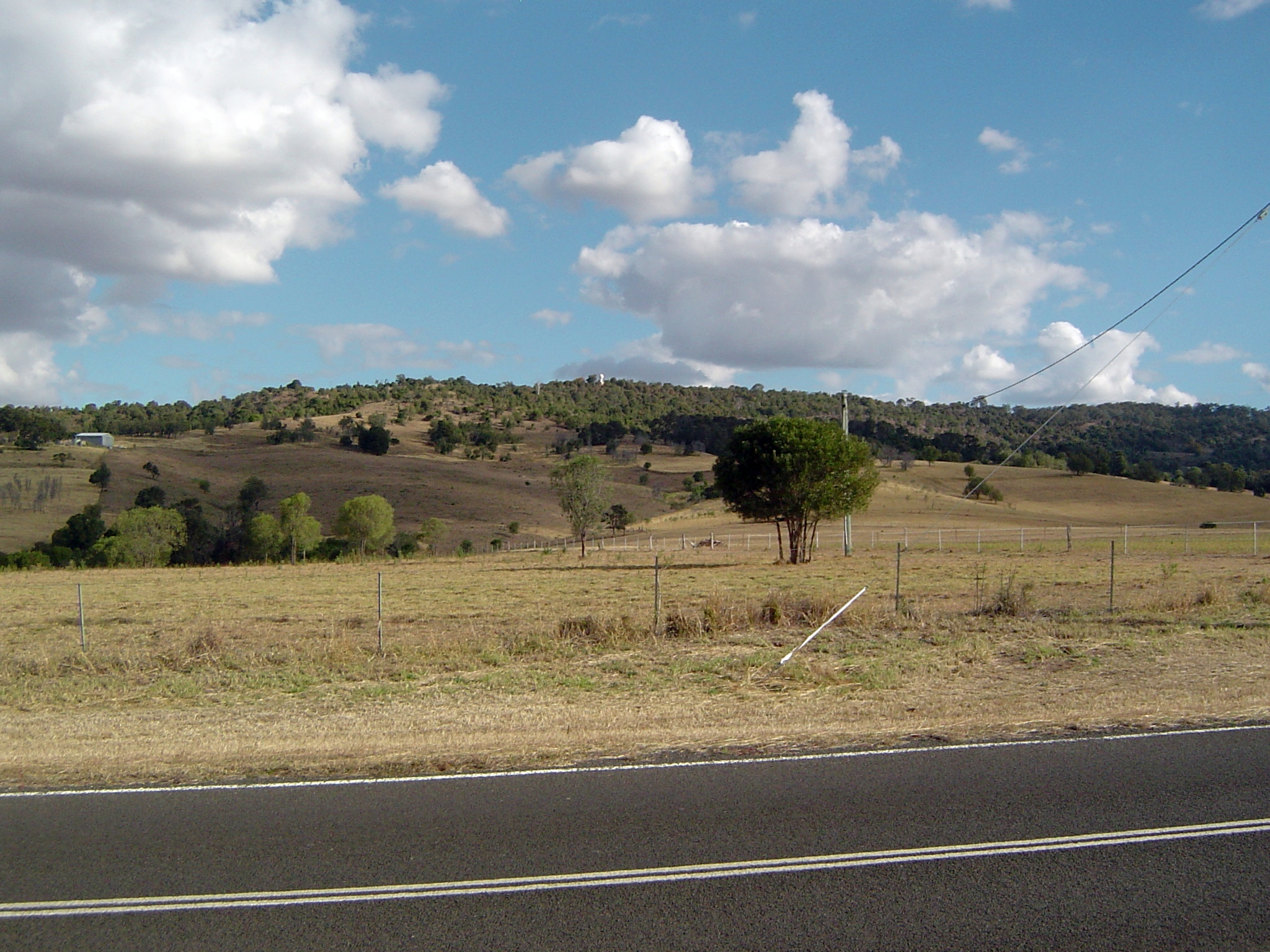 Photo of ridge with Marburg weather radar at Tallegalla, Ipswich, Queensland, Australia.